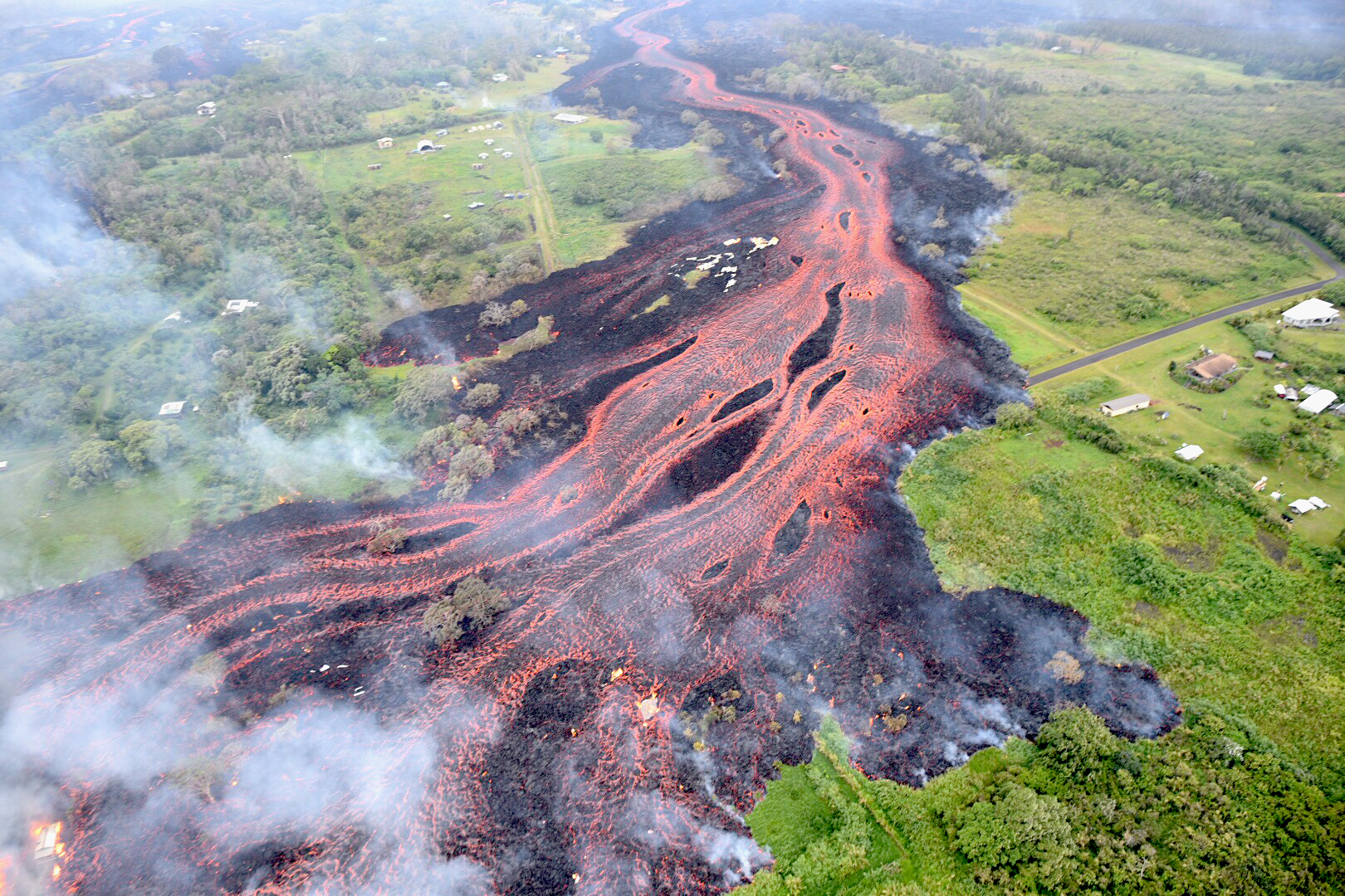 Helicopter overflight of Kīlauea Volcano's lower East Rift zone on May 19, 2018, around 8:18 AM, HST. ‘A‘ā lava flows emerging from the elongated fissure 16-20 form channels. The flow direction in this picture is from upper center to the lower left.